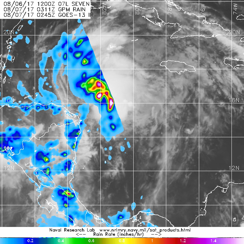 This composite image combines GPM rainfall data with infrared cloud imagery from NOAA's GOES-13 satellite to give a full picture of Tropical Storm Franklin's clouds and rainfall rates. The white areas surrounded by red indicate rainfall rates greater than 1.6 inches per hour.